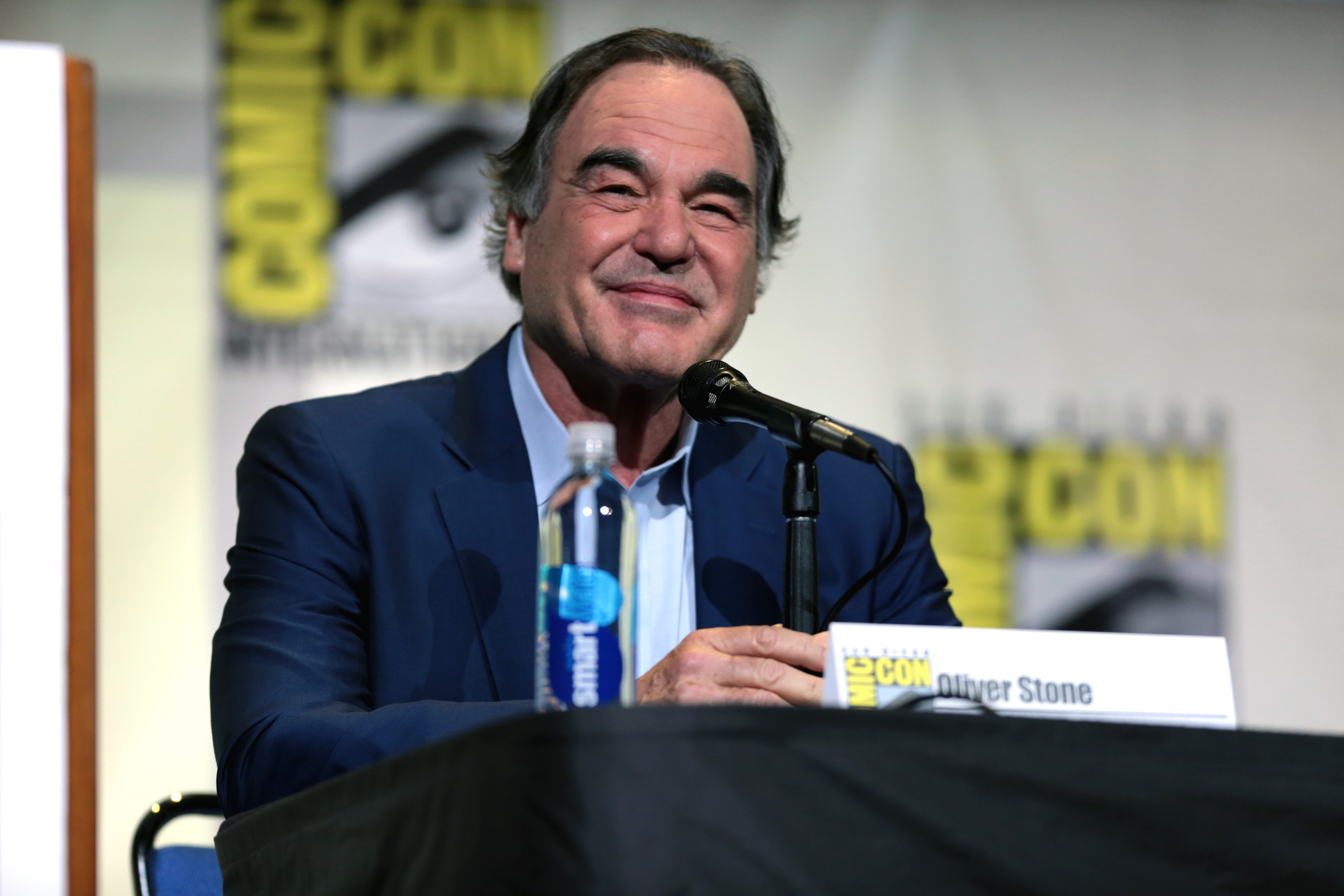 Oliver Stone speaking at the 2016 San Diego Comic Con International, for "Snowden", at the San Diego Convention Center in San Diego, California.